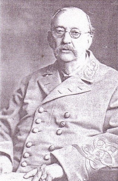 Photo of Dr. George H. Tichenor, as United Confederate Veterans, Louisiana Division, Commander, 1916-1918